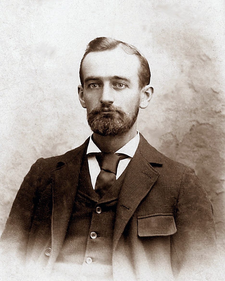 Photo of Frederick (Friedrich) Trump